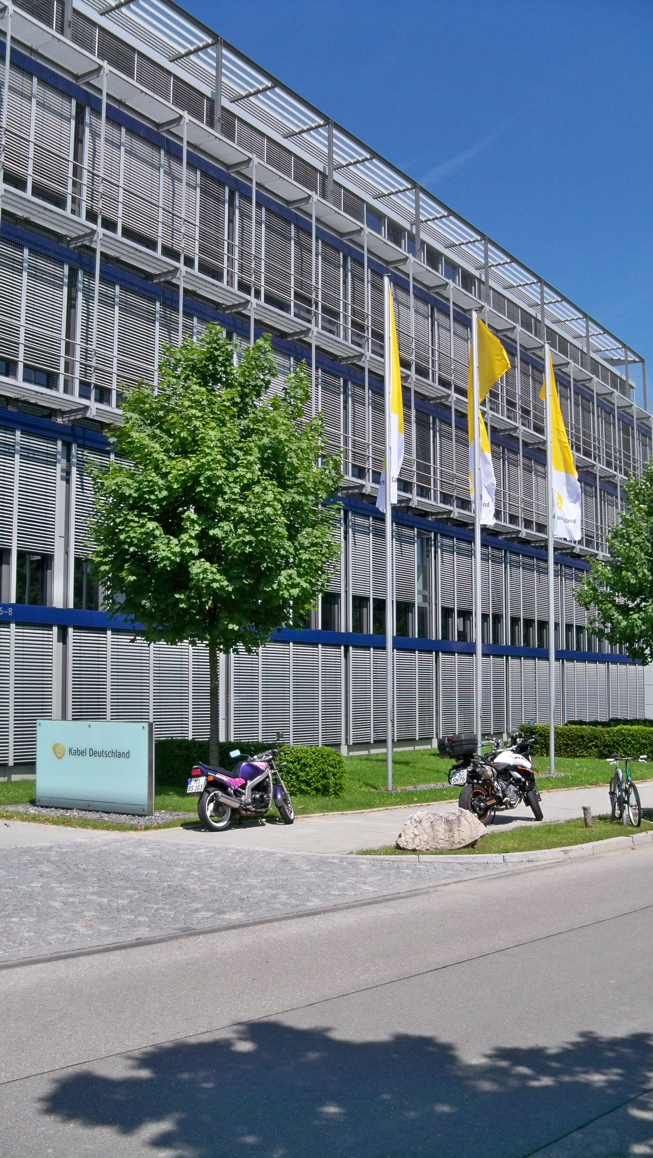 Kabel Deutschland (detail) in Unterföhring, Germany.